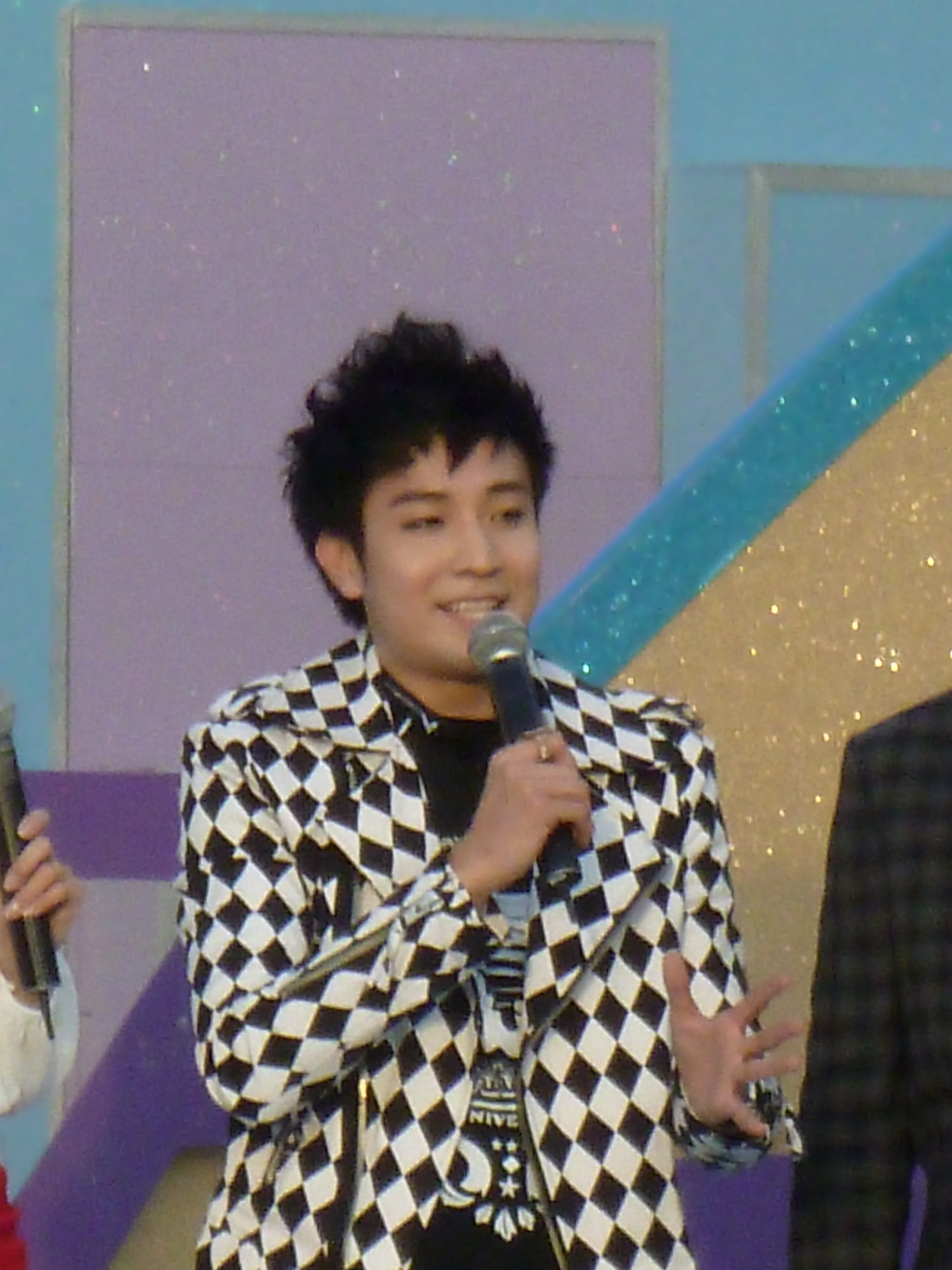 Det Dik中文（香港）: 狄易達 (24 Nov 2013, 荔枝角公園一期足球場)